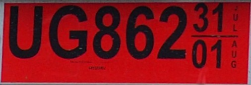 Norwegian license plate for testing or ferrying vehicles